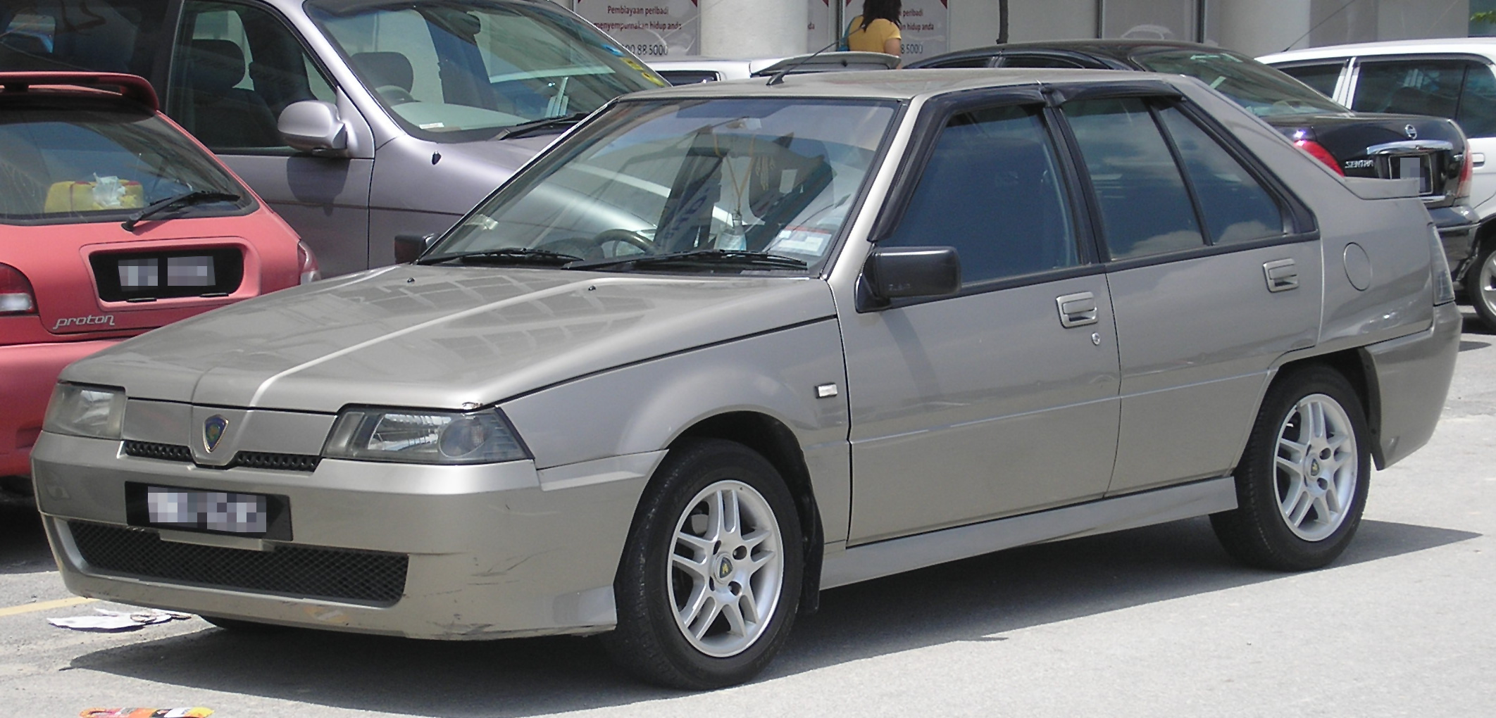 Front quarter view of a re-released, second facelifted Proton Saga (hatchback), in Serdang, Selangor, Malaysia.